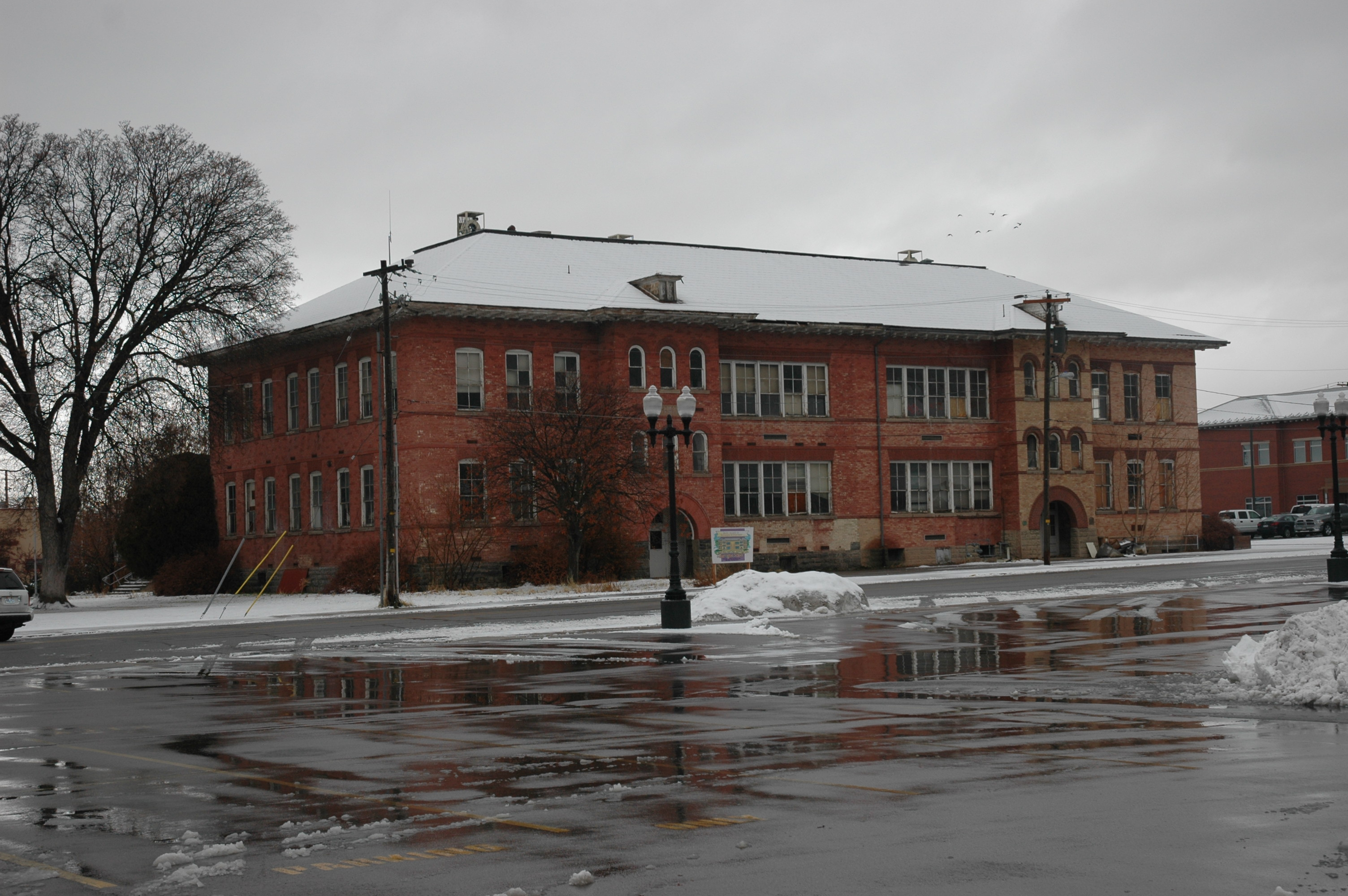 Harrington Elementary School, a historic school building in American Fork, Utah, United States.